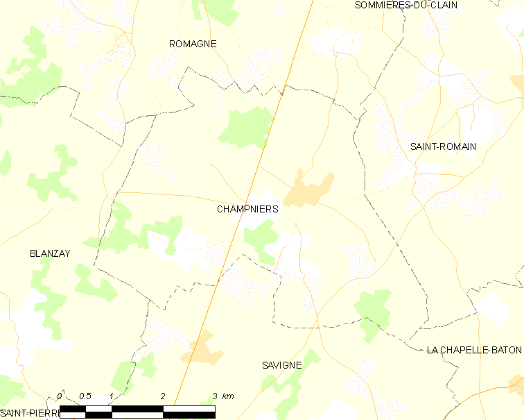 Map of French municipality Champniers